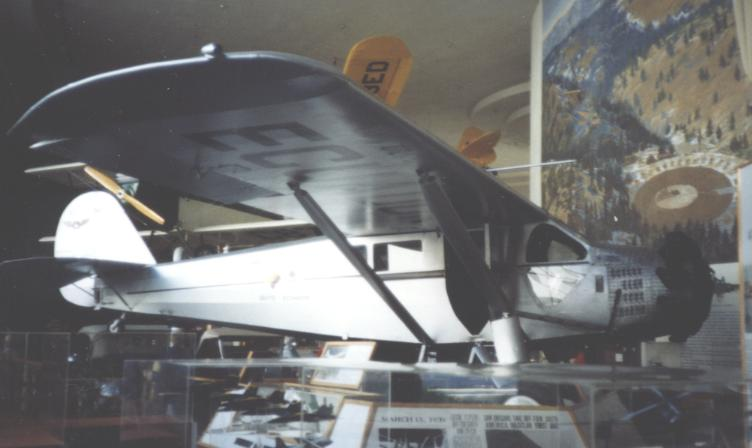 Ryan B-5 Brougham NC9236 in the San Diego Aviation Museum